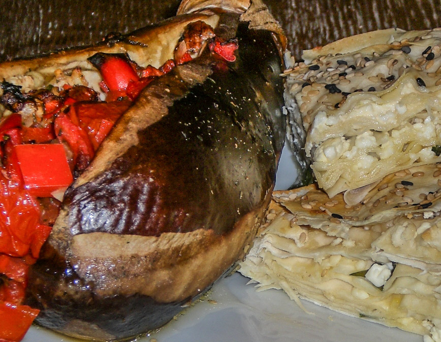 İmam bayıldı (braised eggplant stuffed with onion, garlic and tomatoes) (left), served with börek (savory phyllo-based pastry).